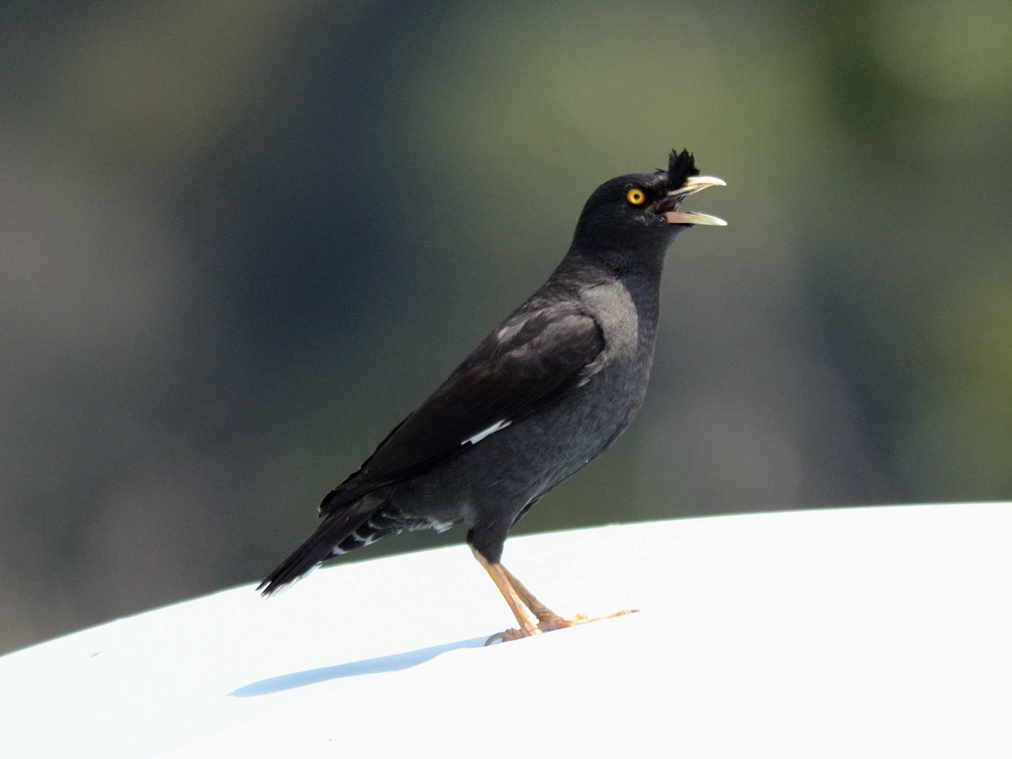 Crested Myna (Acridotheres cristatellus)